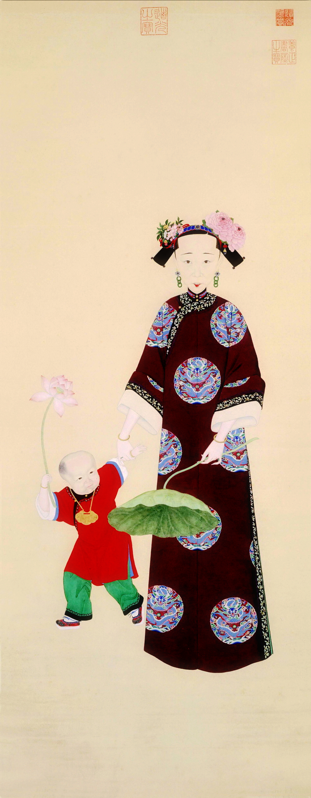 The Official Imperial Portrait of Qing Dynasty's Empresses